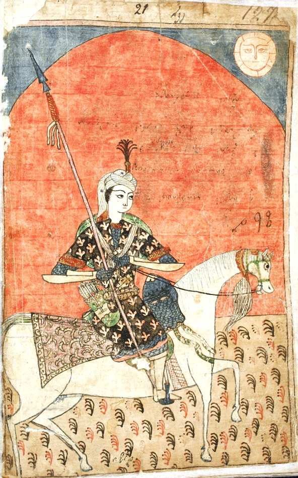 A miniature by Mamuka Tavakalashvili from the manuscript of Shota Rustaveli's "Knight in the Panther's Skin". H599. 256r. National Center of Manuscripts, Tbilisi, Georgia